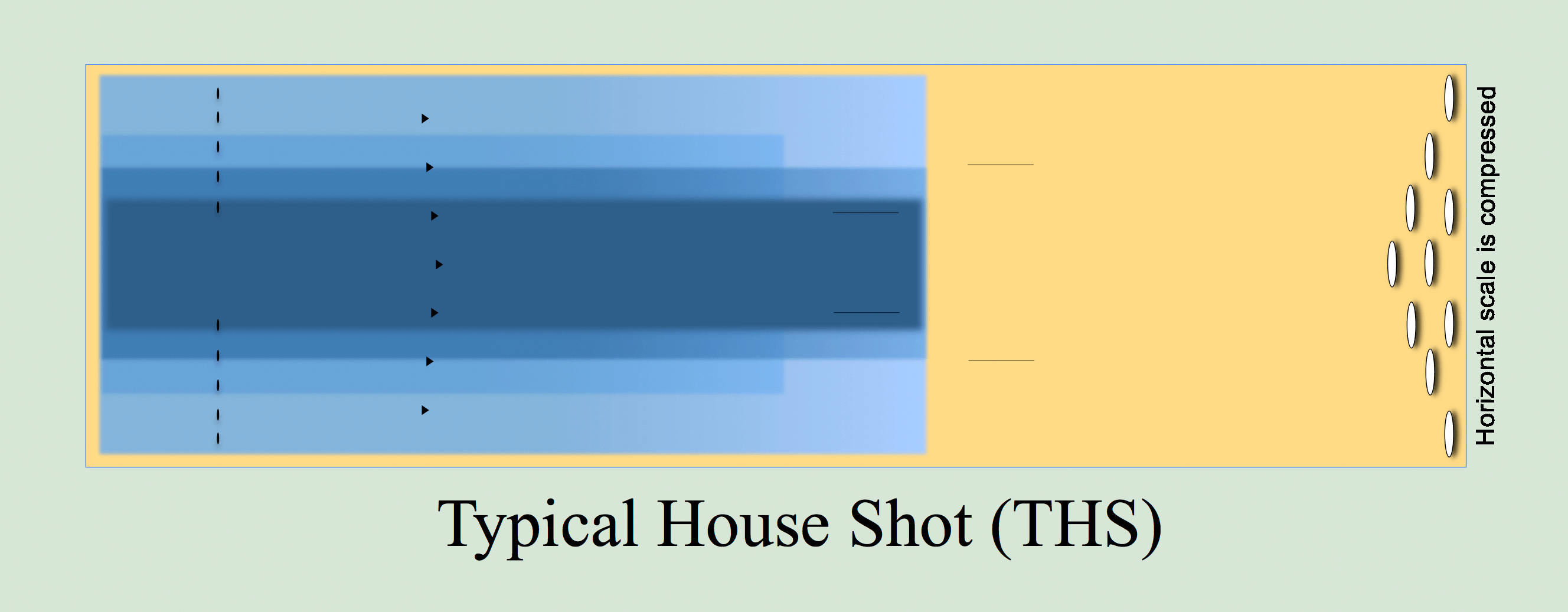 Conceptual diagram showing a Typical House Shot (THS) oil pattern on a bowling lane, with greater oil concentrations being represented by darker blues. Lane is compressed (not to scale). Cropped from the following image: 20190106 Oil patterns on bowling lanes